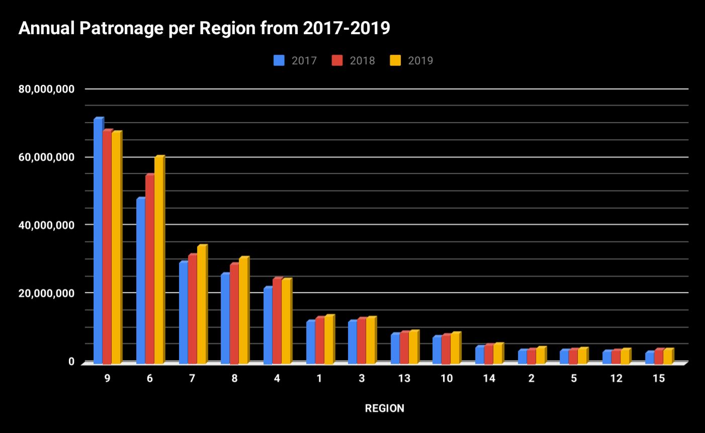 Depicting patronage on buses in Sydney from 2017 to 2019. This information is split into Sydney Bus Metropolitan Contract Regions.